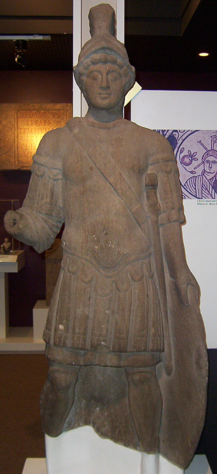 Statue of Roman God Mars in the Yorkshire Museum found in Blossom Street York and dates from the early 4th century. Taken by Kaly99. Article Eboracum